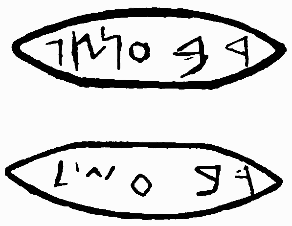 Samaritan hematite weight with inscription